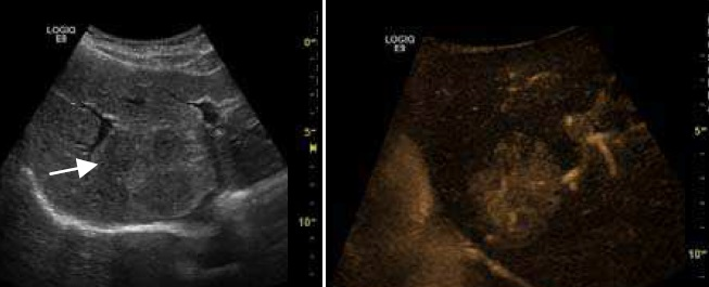 Contrast-enhanced ultrasound of focal nodular hyperplasia.